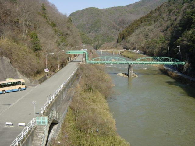 Kobe Suido (Kobe Aqueduct) seen from Takedao Station in Nishinomiya, Hyogo, Japan